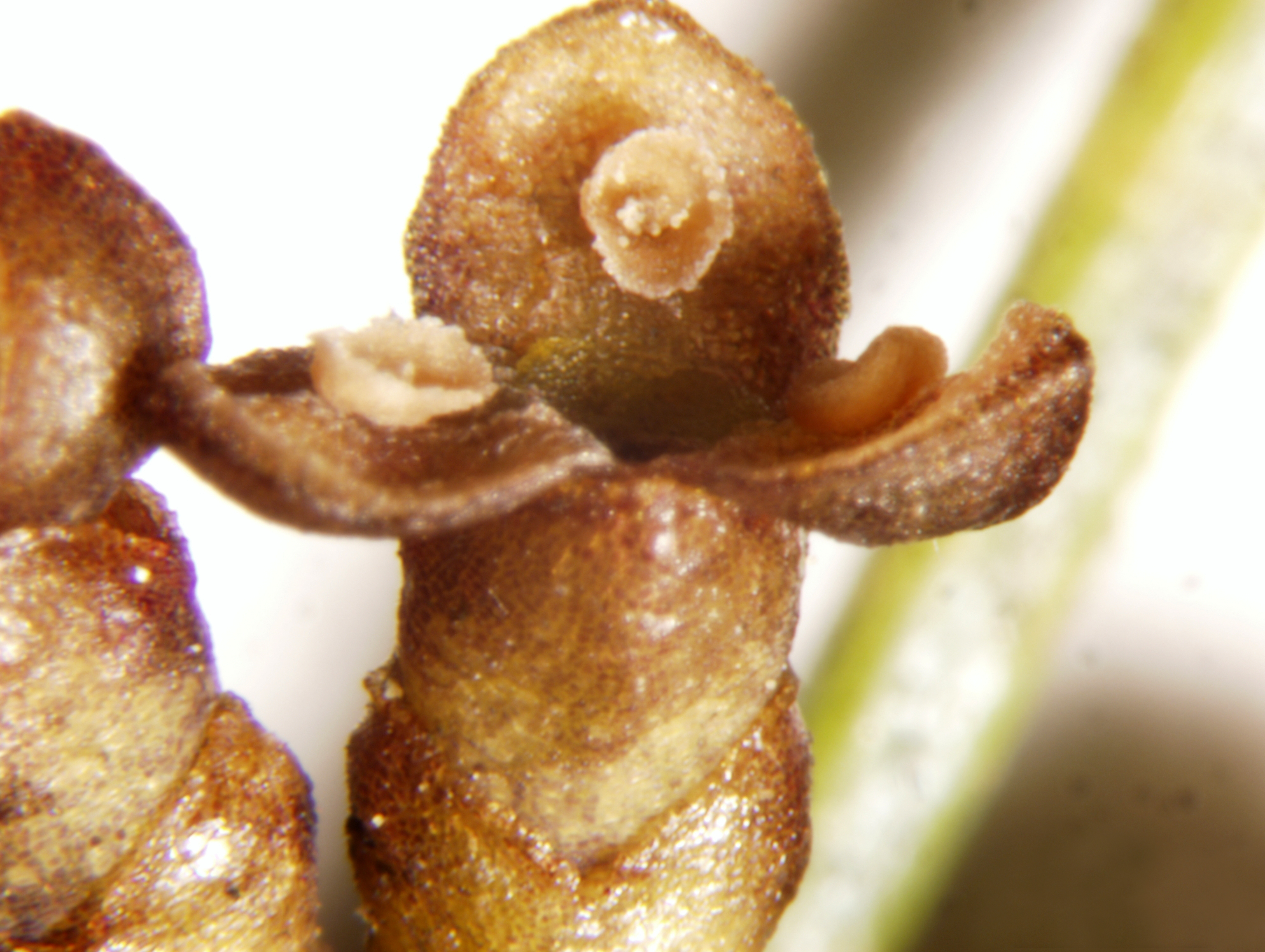 Arceuthobium pusillum Peck - eastern dwarf mistletoe - Host: black spruce (Picea mariana (P. Mill.) B.S.P.) - Male flowers - Laboratory - Minnesota, United States